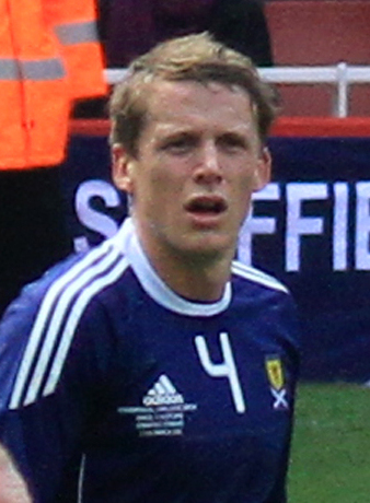 Christophe Berra